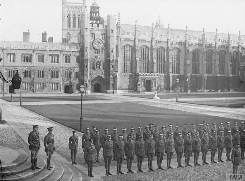 The British Army on the Home Front, 1914-1918 Cadets of No. 5 Battalion parading in the Great Court, Trinity College, Cambridge, for Divine service.